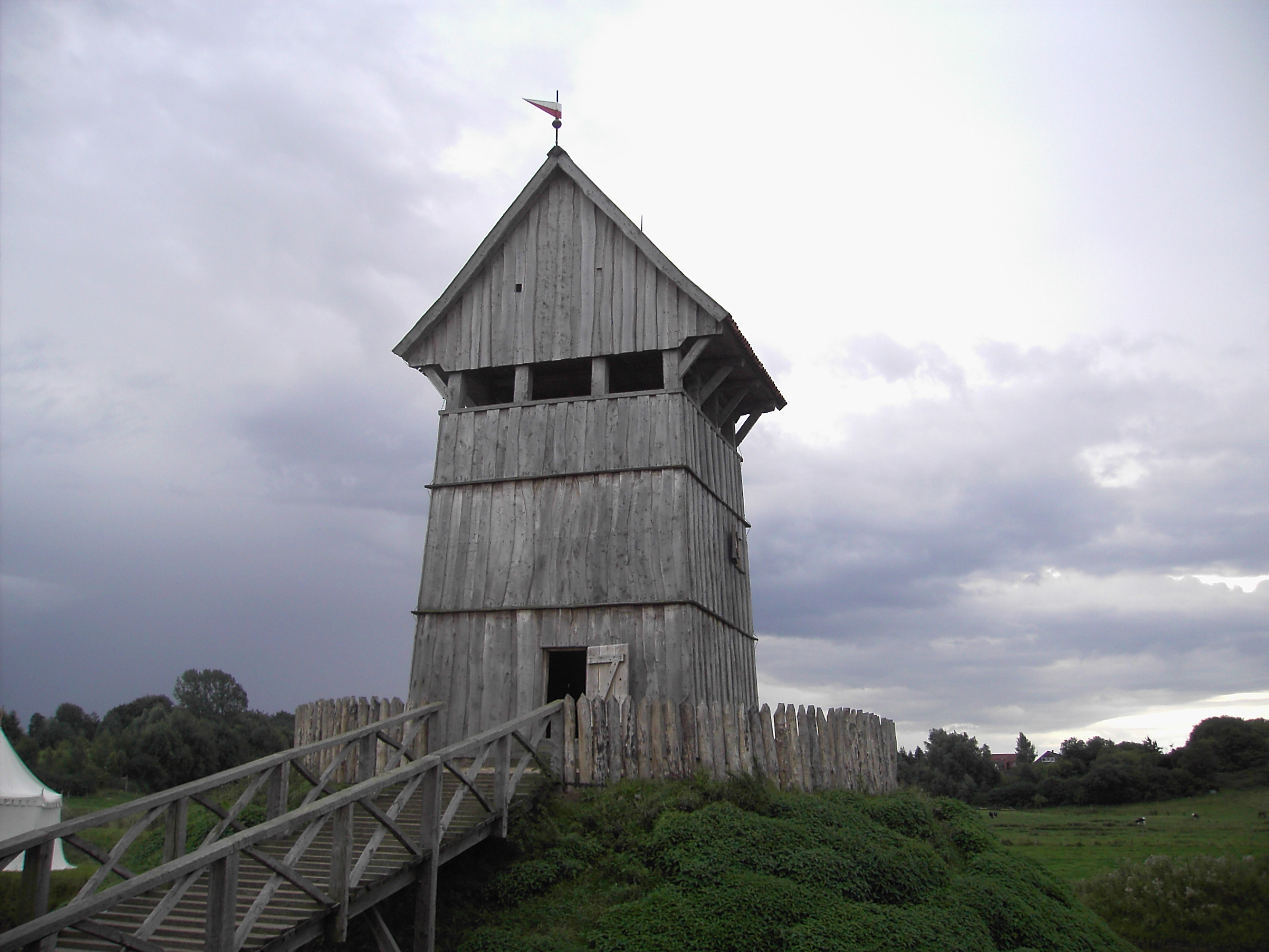 created by user: Flash Gordon1